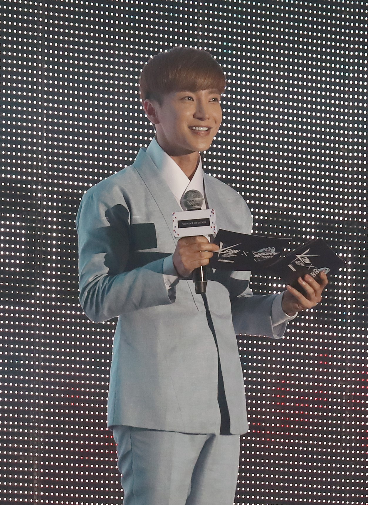 President Park Geun-hye’s Official State Visit to FranceK-CON Concert in ParisJune 2, 2016Paris, FranceMinistry of Culture, Sports and TourismKorean Culture and Information ( Photographer : Jeon HanThis official Republic of Korea photograph is being made available only for publication by news organizations and/or for personal printing by the subject(s) of the photograph. The photograph may not be manipulated in any way. Also, it may not be used in any type of commercial, advertisement, product or promotion that in any way suggests approval or endorsement from the government of the Republic of Korea.-------------------------------------------------박근혜 대통령 프랑스 국빈방문K콘(con) 2016 프랑스2016-06-02파리, 프랑스문화체육관광부해외문화홍보원코리아넷전한